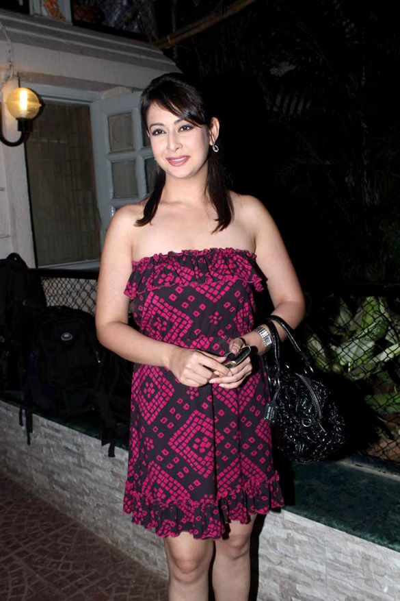 Bollywood & TV actors at Ekta Kapoor's birthday bash